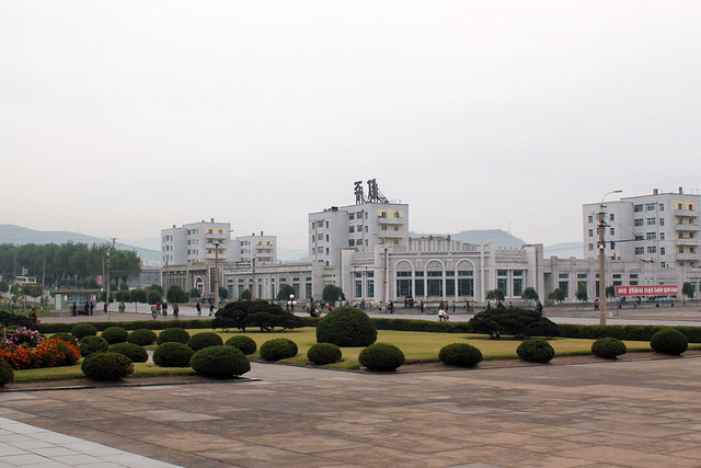 Downtown Chongjin North Korea taken from the Kim Il-sung monument.